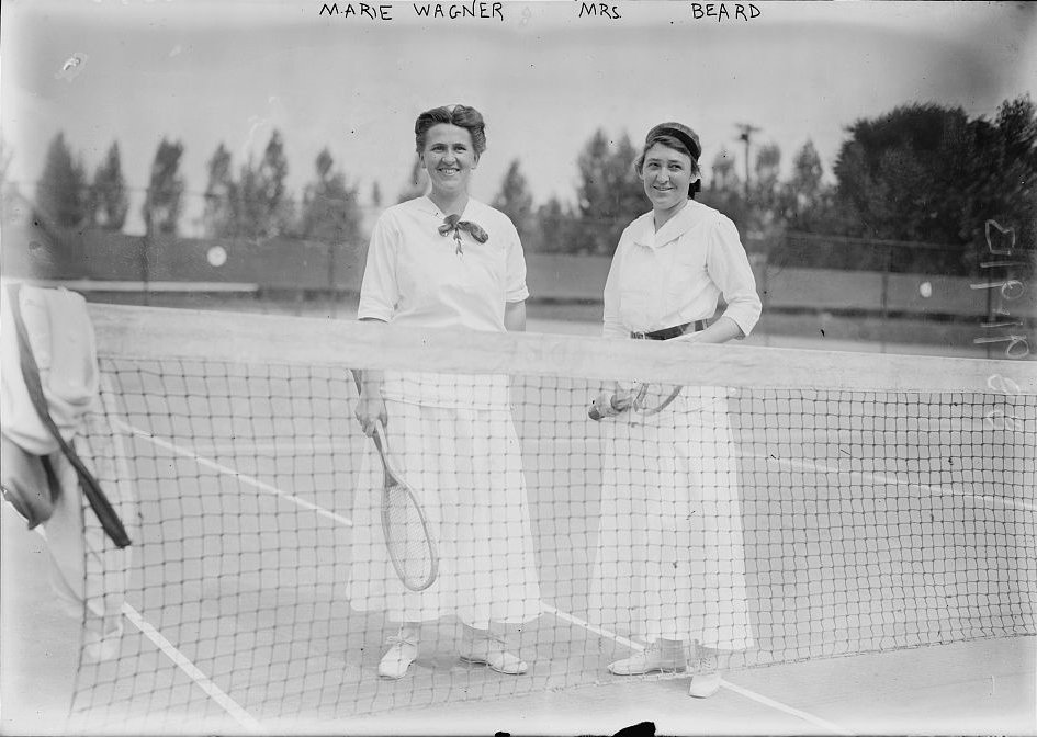 Bain News Service,, publisher. Marie Wagner and Mrs. Beard in 1913 [between ca. 1910 and ca. 1915] 1 negative : glass ; 5 x 7 in. or smaller. Notes: Title from unverified data provided by the Bain News Service on the negatives or caption cards. Forms part of: George Grantham Bain Collection (Library of Congress). Format: Glass negatives. Repository: Library of Congress, Prints and Photographs Division, Washington, D.C. 20540 USA, General information about the Bain Collection is available at Persistent URL: Call Number: LC-B2- 2844-15